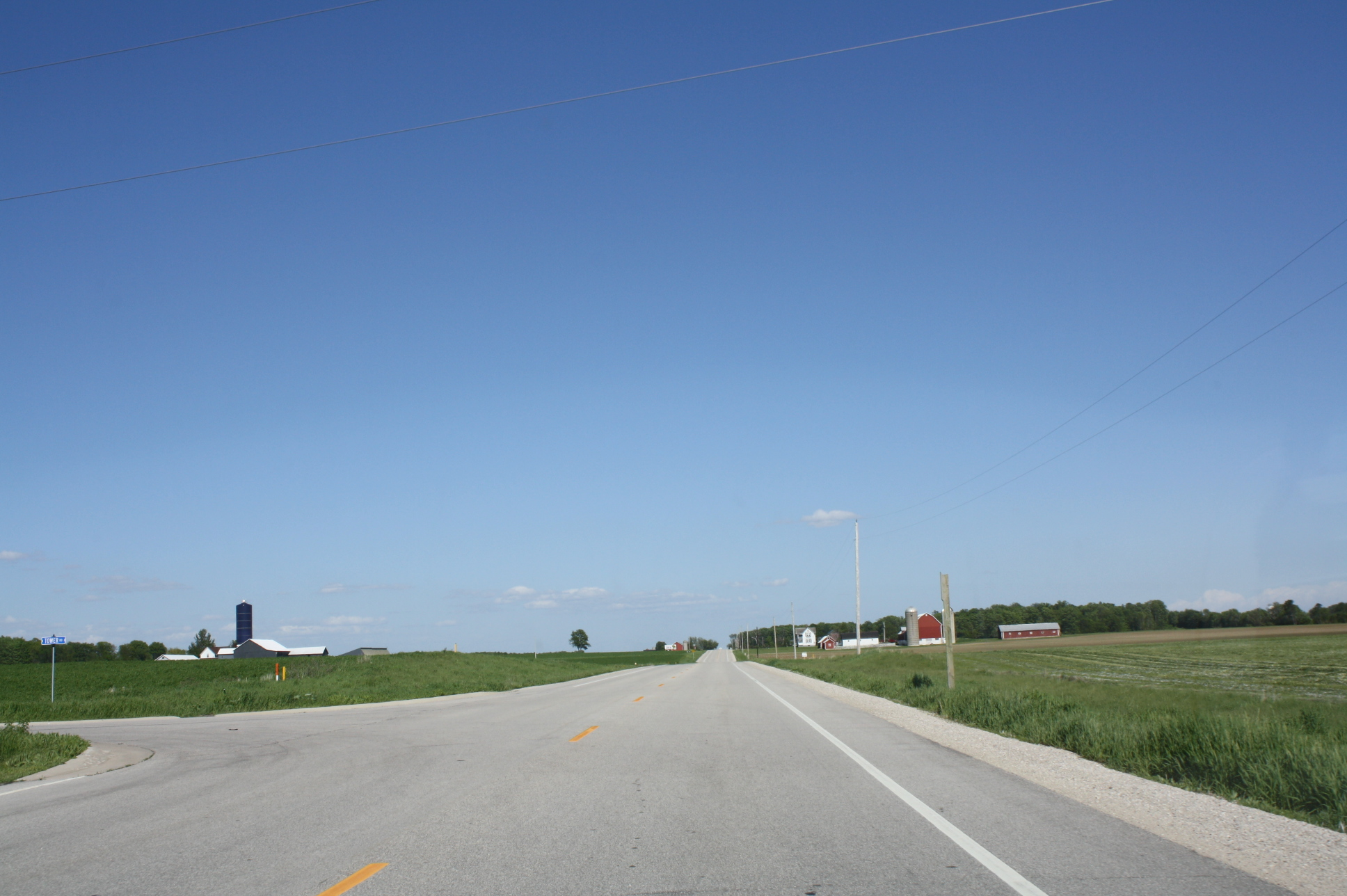 Looking east down U.S. Route 151 in Calumet County, Wisconsin. The road is aligned along the 44th parallel for several miles. The town of Brothertown (Brothertown, Wisconsin is found on the right (former Brothertown Indians reservation) and the town of Stockbridge (Stockbridge (town), Wisconsin) is found on the left.